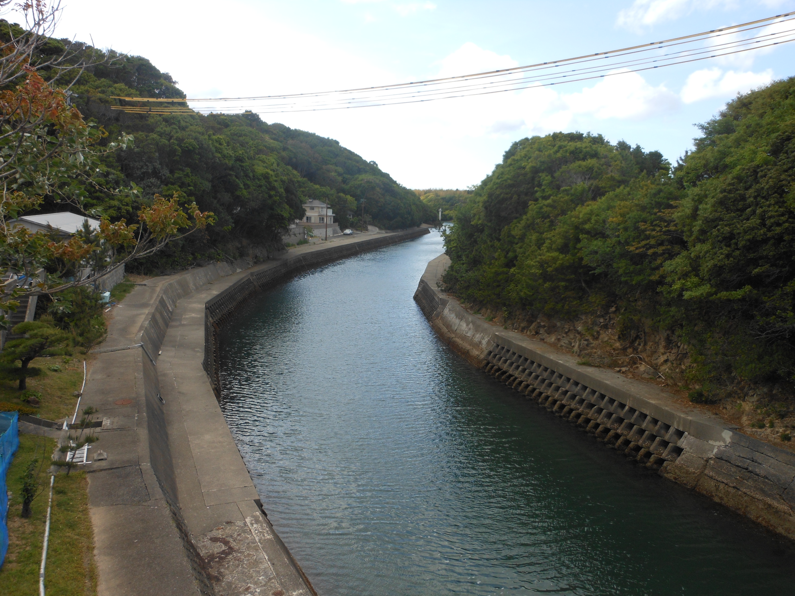 This is the Fukaya Canal or Fukaya Suido, which connects Pacific ocean and Ago Bay in Mie, Japan.